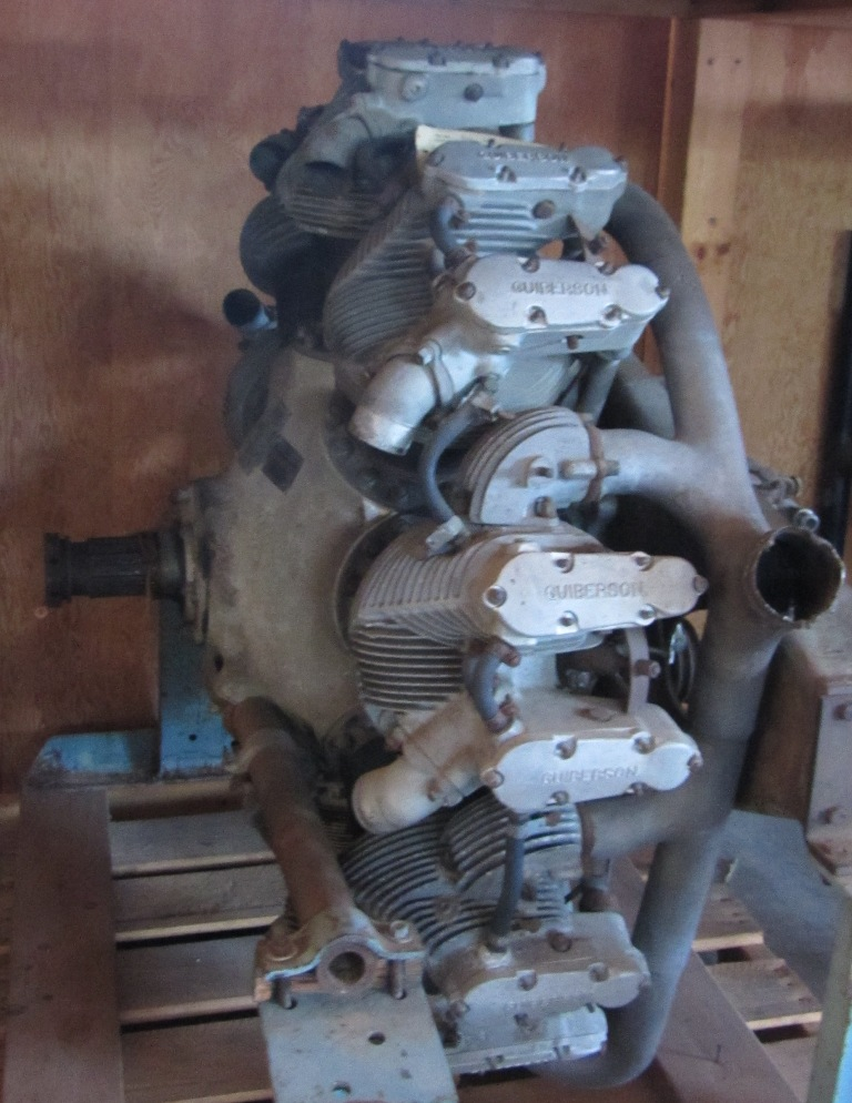 Guiberson-Diesel-Radial Aircraft Engine